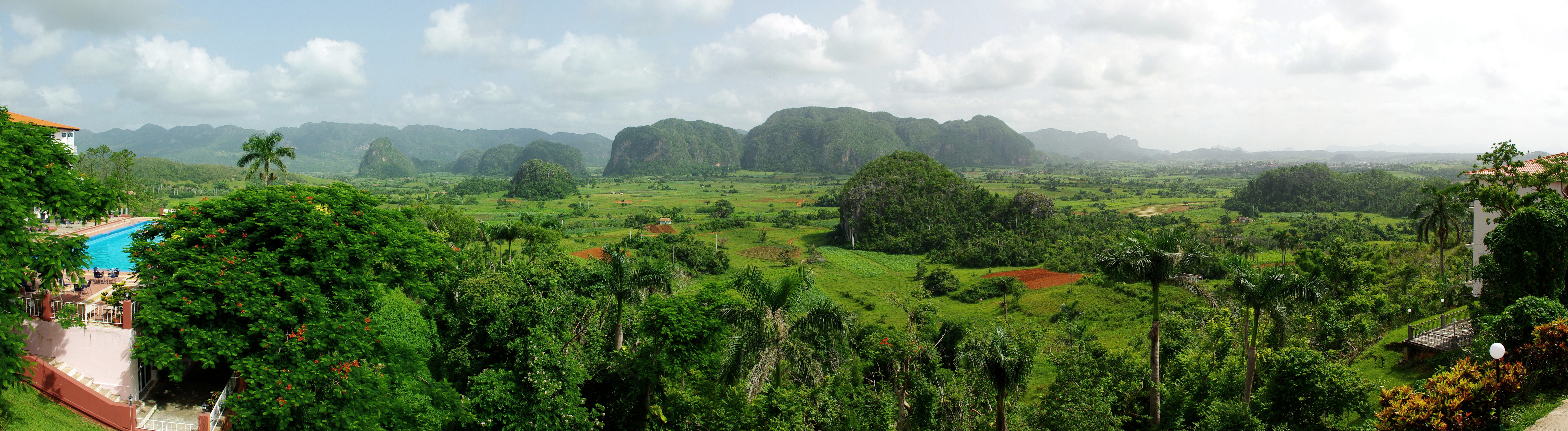 Viñales Valley, World Heritage of Unesco